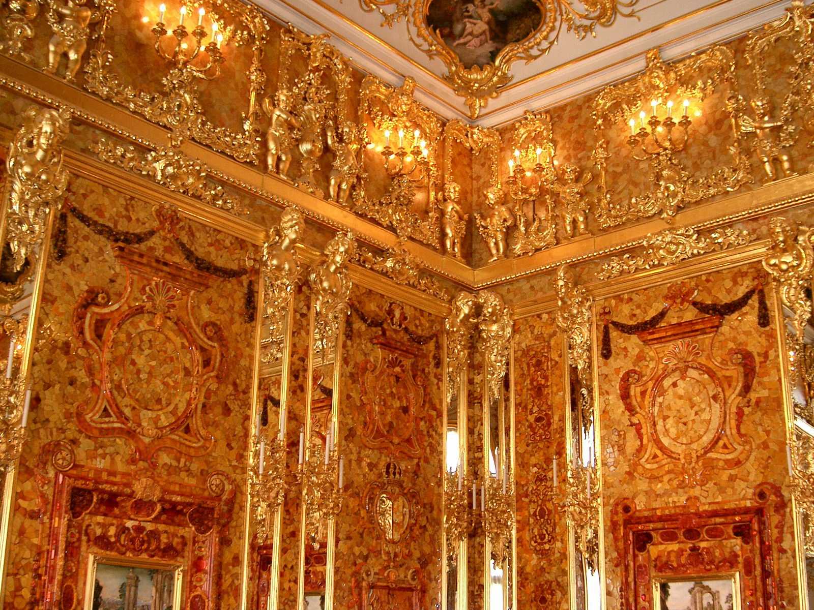 Pushkin (Russia), Replica of the Amber room of the Catherine Palace